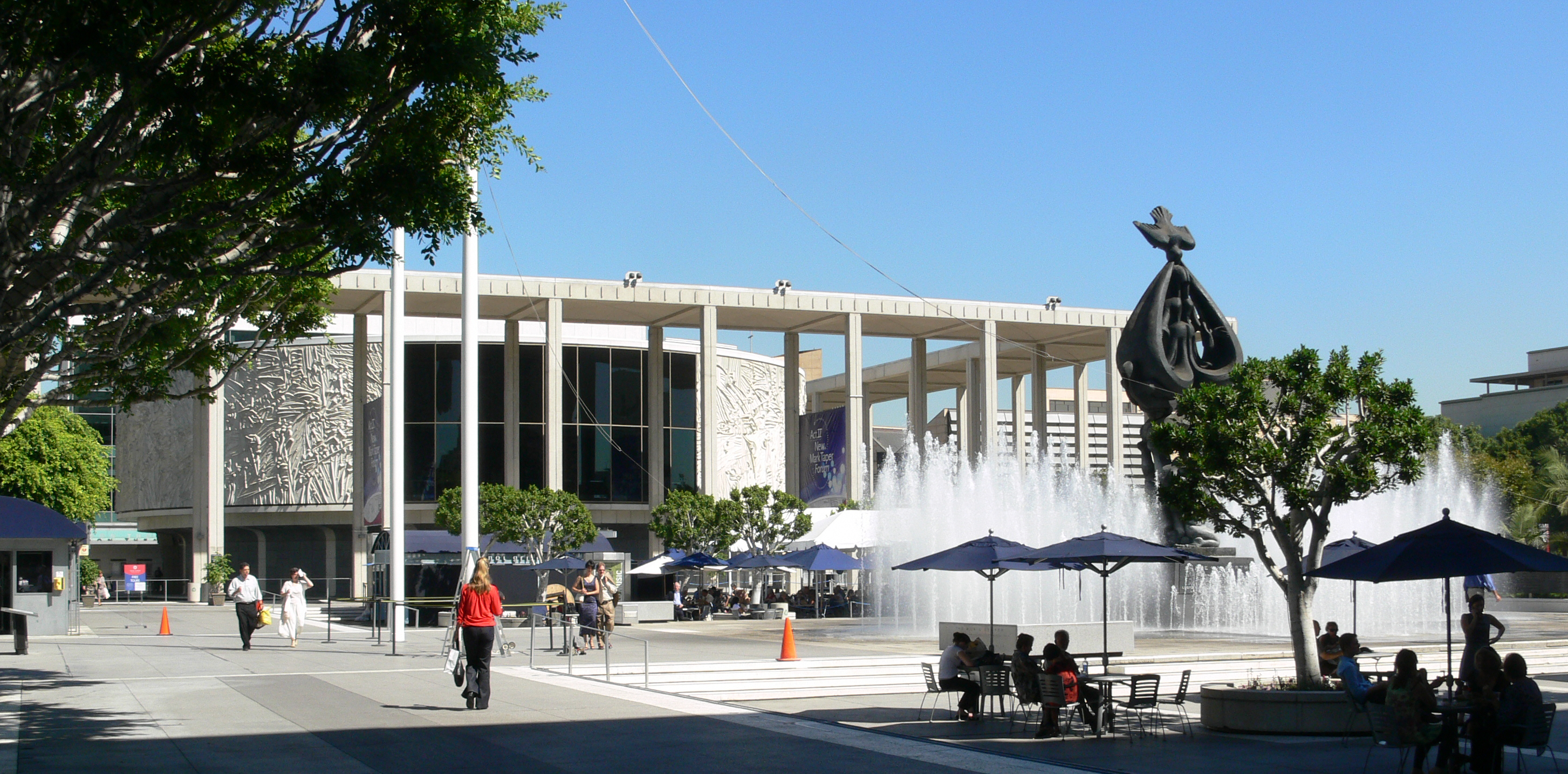 Los Angeles Music Center, view towards the "Mark Taper Forum" theatre